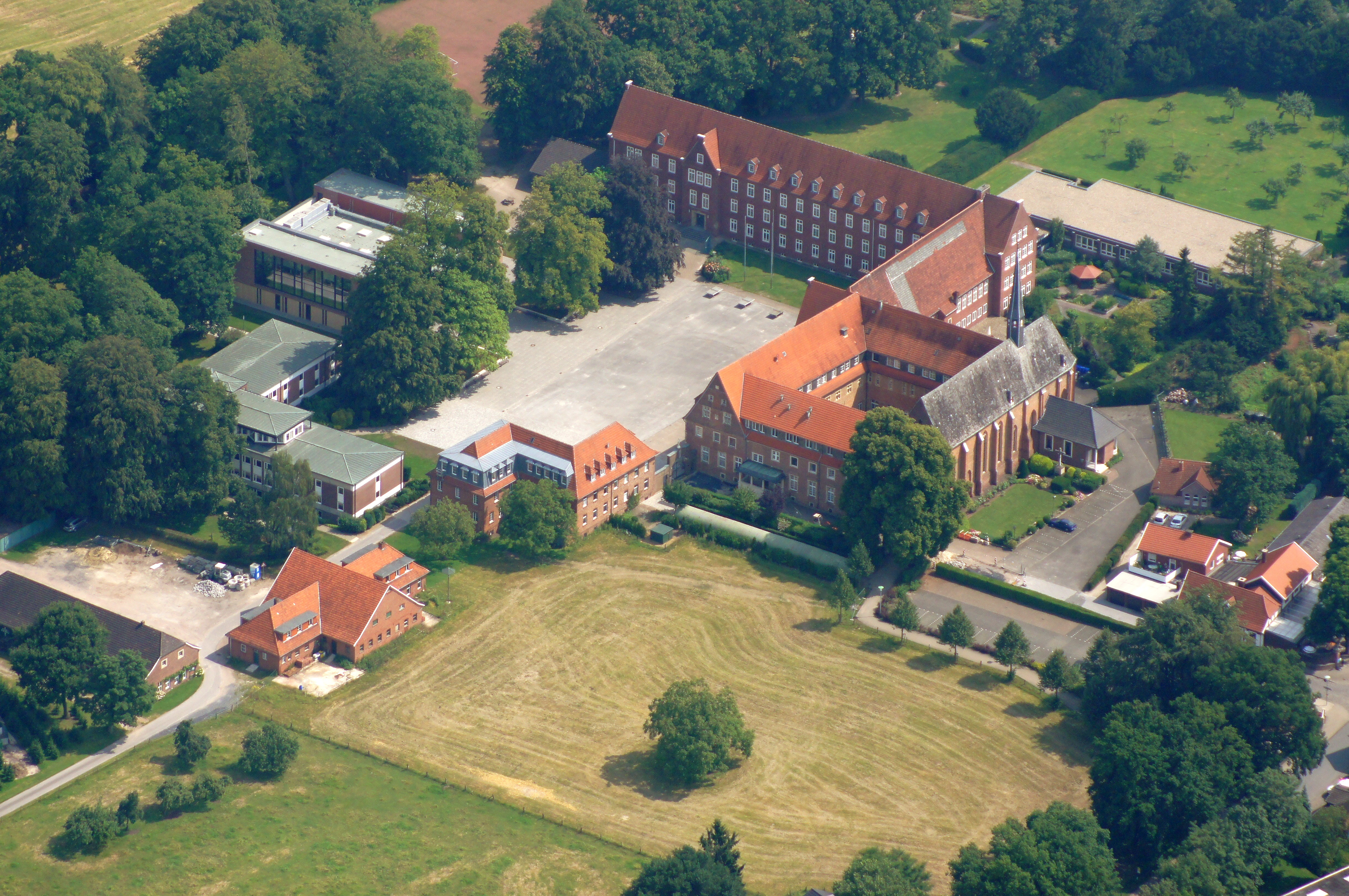 The monastery Mariengarden and the church St. Marien in Burlo, city of Borken, North Rhine-Westphalia, Germany.